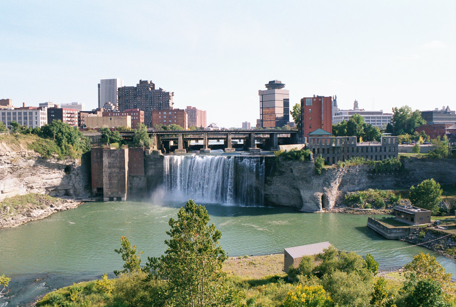 Rochester, New York High Falls